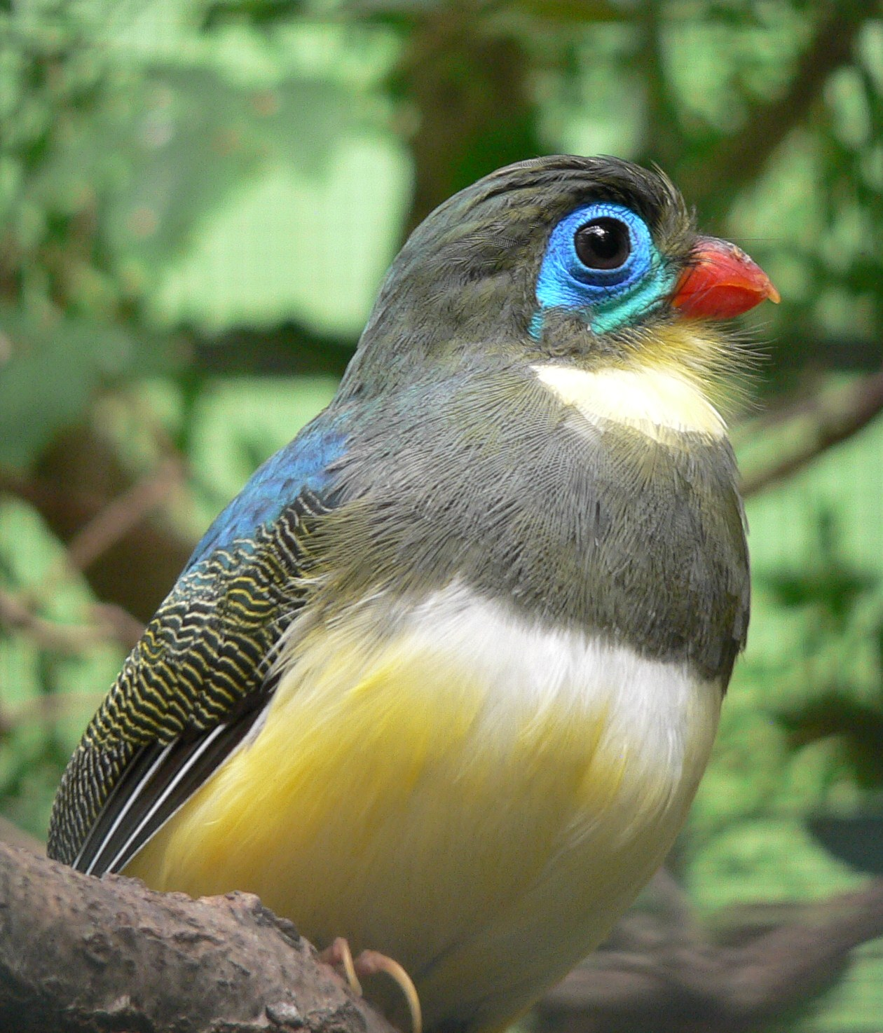 Apalharpactes mackloti